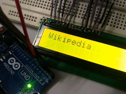 Wikipedia on Liquid Crystal Display: Arduino programmed.